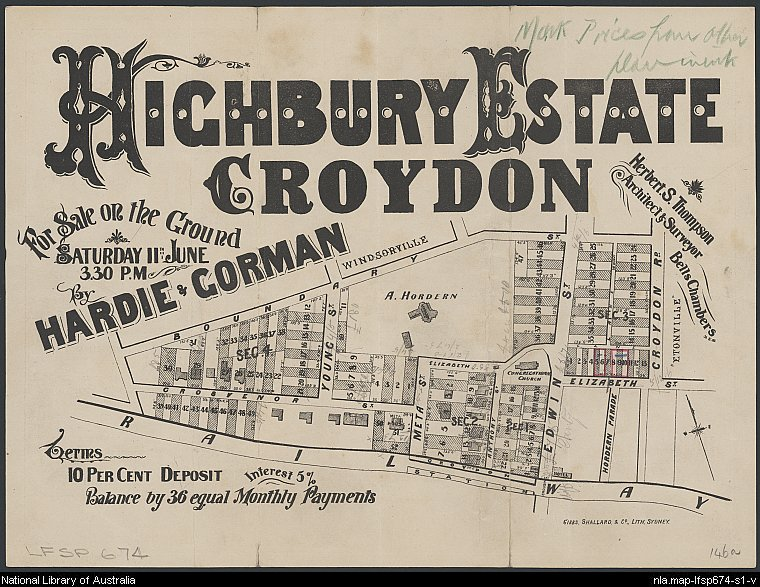 Highbury Estate, Croydon [cartographic material]. Sales plan for land in the suburb of Croydon in Sydney. "Terms. 10 per cent deposit, balance by 36 equal monthly payments, interest 5%". In right panel: "Herbert S. Thompson, architect & surveyor, Bells Chambers, 31.5.81".